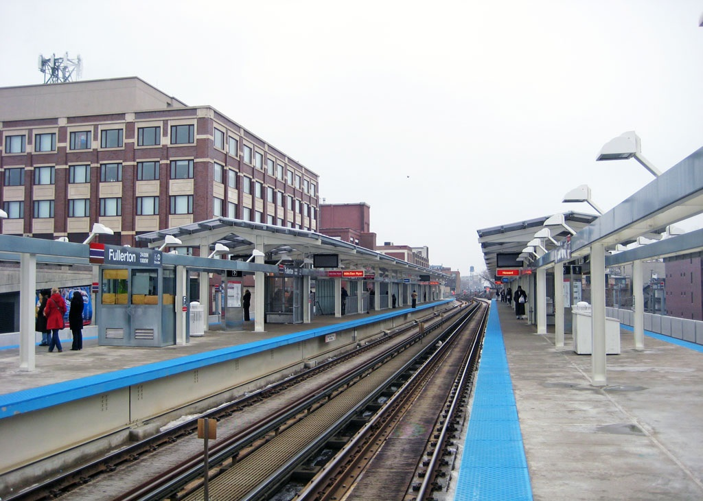 Fullerton station's wide dual island platforms, with peaked canopies in the center, are seen looking north along the northbound Red Line (Track 3) side on February 21, 2010. The horizontal raceways, besides being handy to mount lights and signage, provide a convenient and aesthetically-pleasing way to conceal conduits. The columns and raceway are designed to accommodate further extension of the canopy, if desired at a future date. The southbound platform, on the left, includes a supervisor's booth.